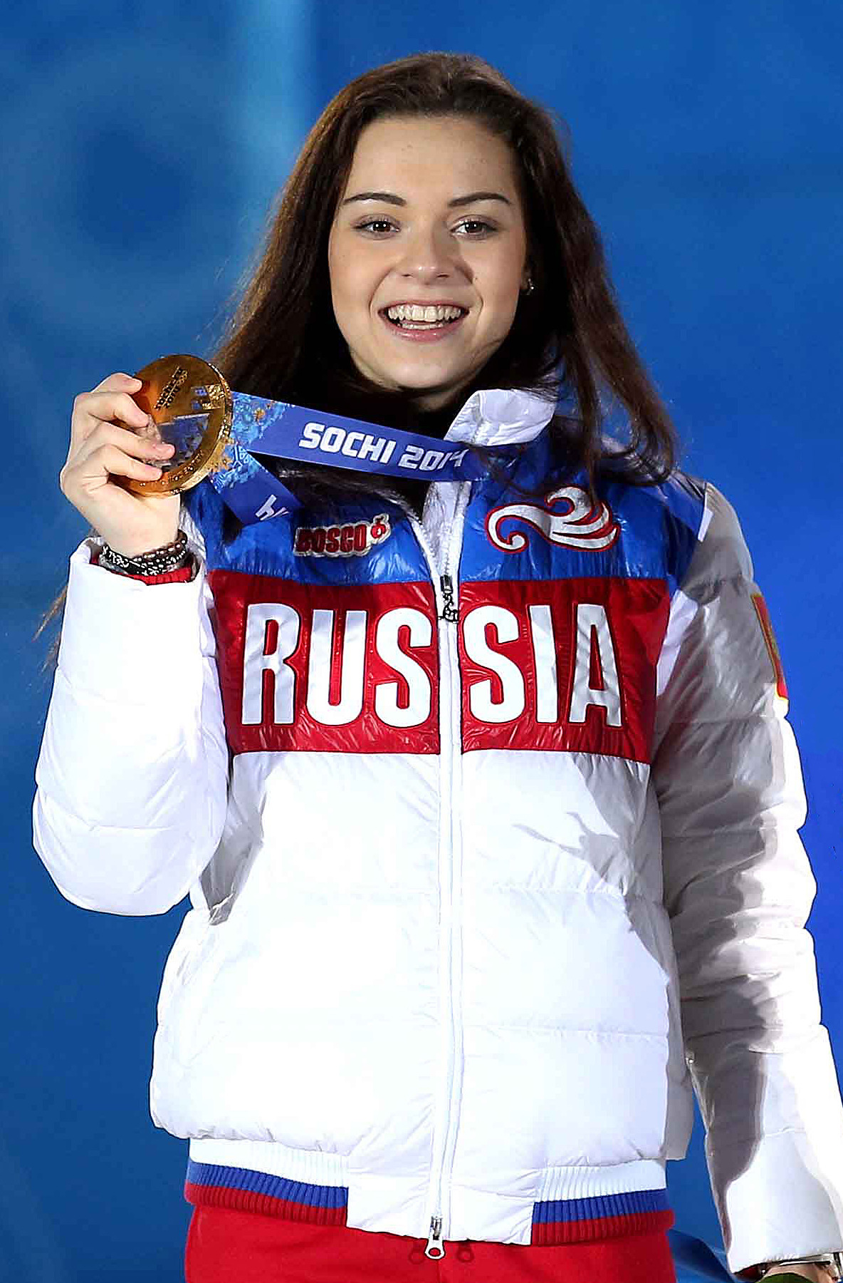 Adelina Sotnikova Sochi Medal Ceremony Image derived from File:Korea Kim Yuna Sochi Medal Ceremony 05.jpg